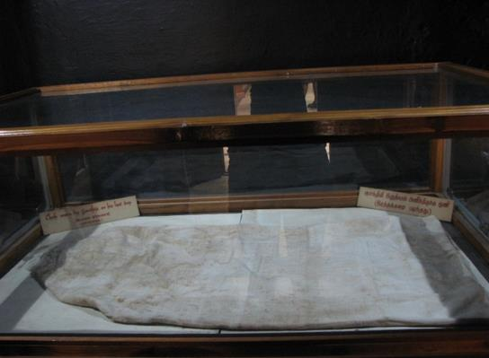 Gandhi's clothing, which was worn at the time of the murder, is kept in a museum in Madurai, Tamil Nadu, India.